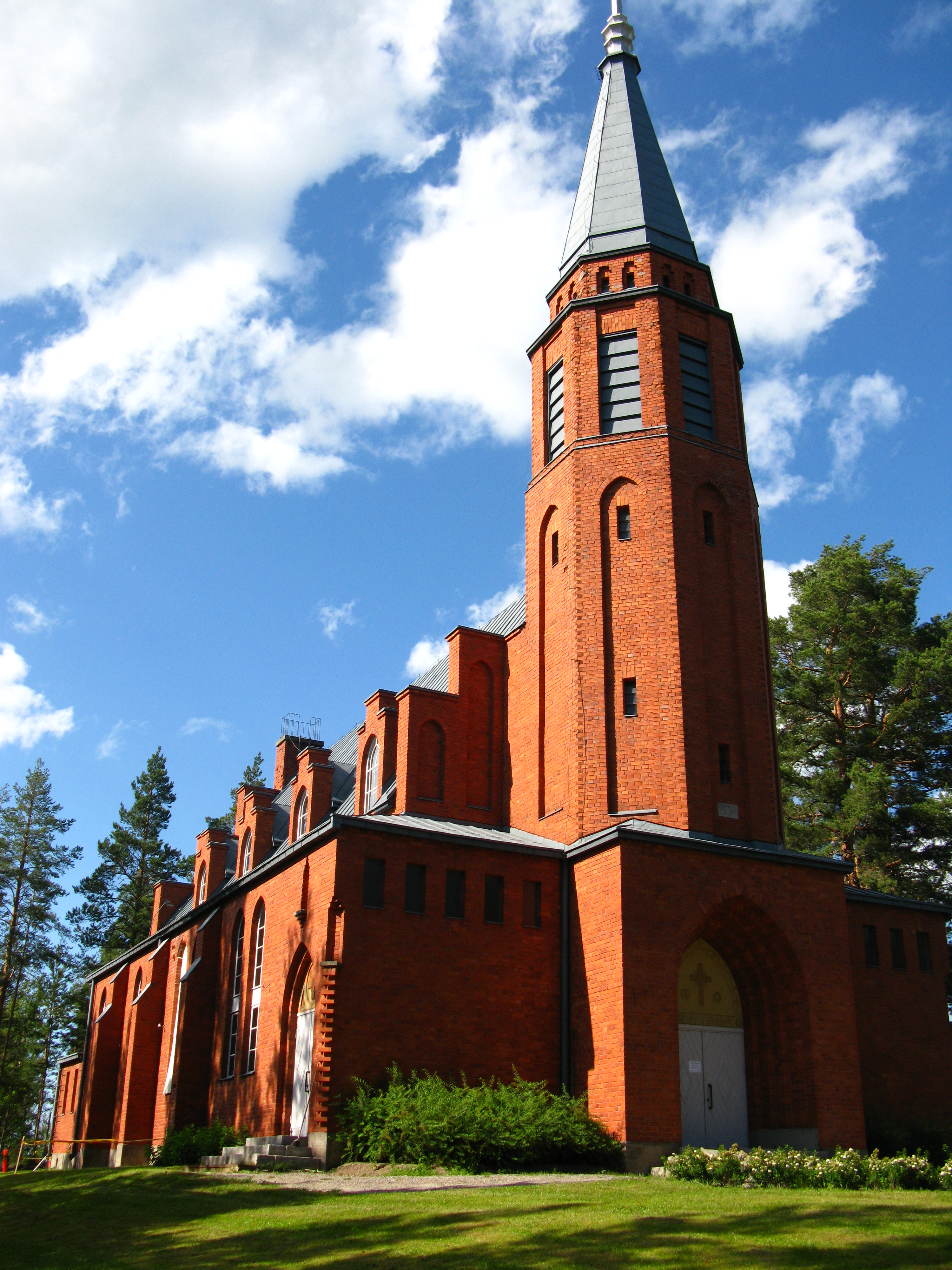 The church of the former municipality Saari, now a part of Parikkala, Finland.